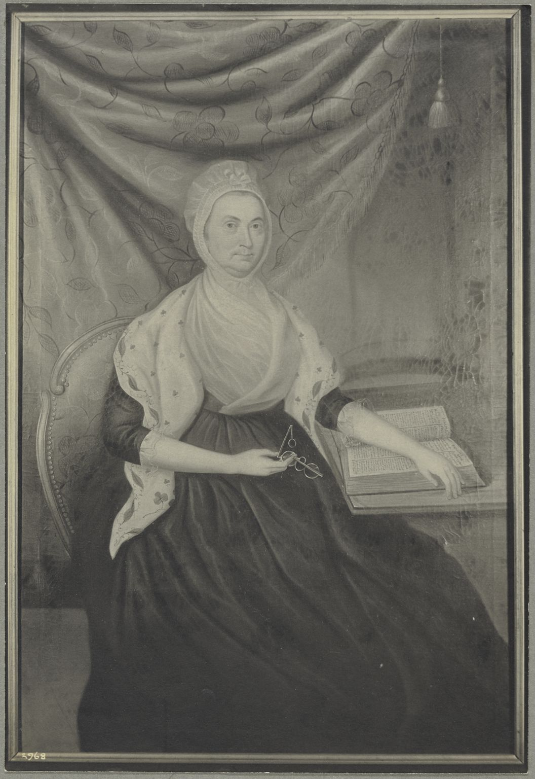 Title:Mrs. James Madison (Eleanor Rose Conway). mother of President Madison Author/Artist:Polk, Charles Peale, 1767-1822 Creation Date:ca. 1799 Description:Graphic reproduction(s) with documentation of a painting. 59 x 40 in. oil on canvas. Provenance:(e) Nellie Conway Madison, sister of James Madison, who married Major Isaac Hite, of "Belle Grove," Meadow Mills, Virginia brought the portrait to "Belle Grove"; (e) her son, James Madison Hite, Sr. (e) his son, James Madison Hite, Jr. (e) his son, Drayton Meade Hite; (e) Mrs. Drayton Meade Hite; (e) presented by her, January 1923, to the Maryland Historical Society, Baltimore; (f) purchased from the Maryland Historical Society by the National Trust for Belle Grove, (g) later renamed Belle Grove Plantation, Middletown, Virginia. Current Repository:Belle Grove Plantation, Middletown, Virginia, United States, public.